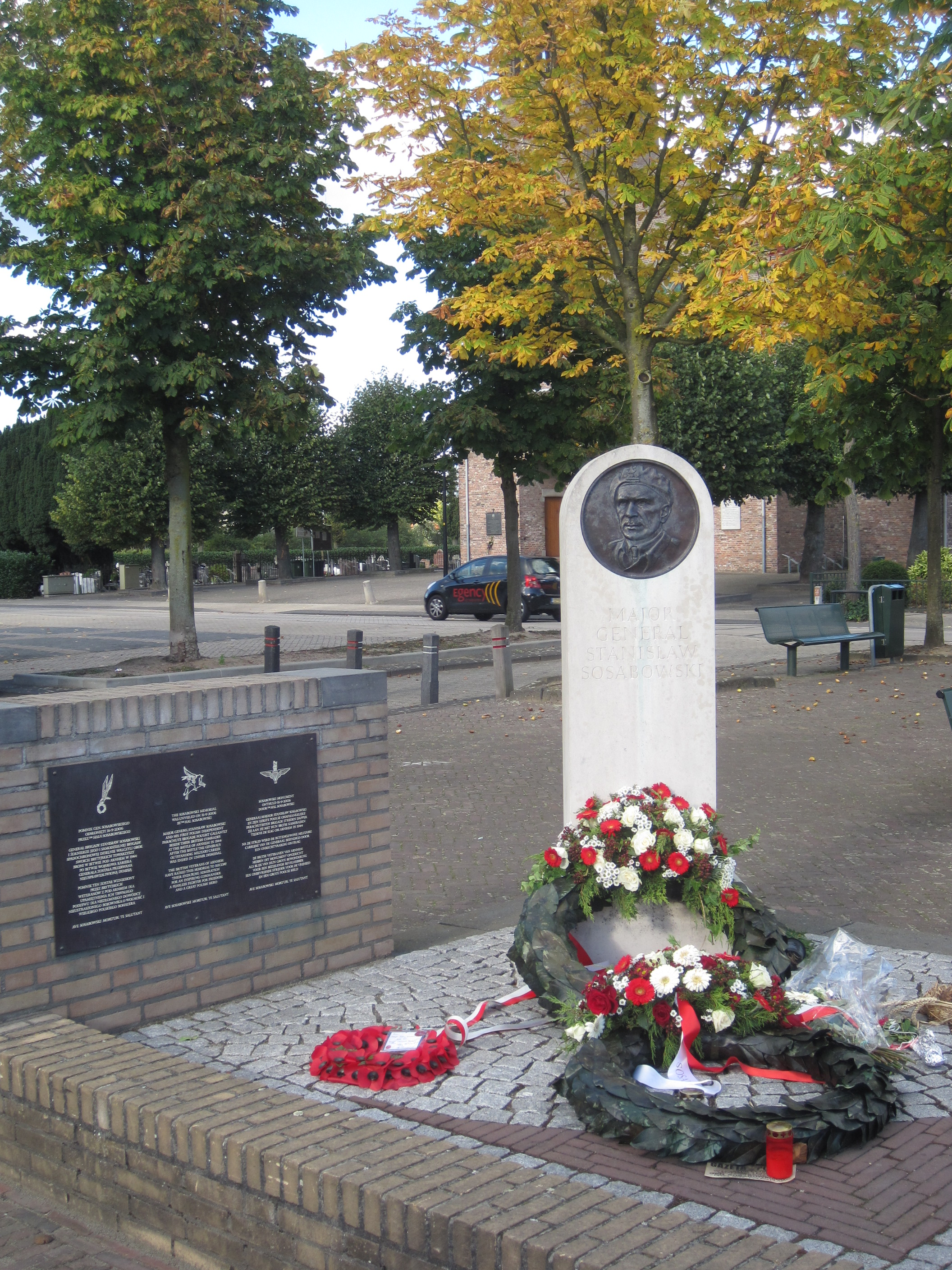 Stanisław Sosabowski monument by Vivien Mallock, Polenplein, Driel, the Netherlands